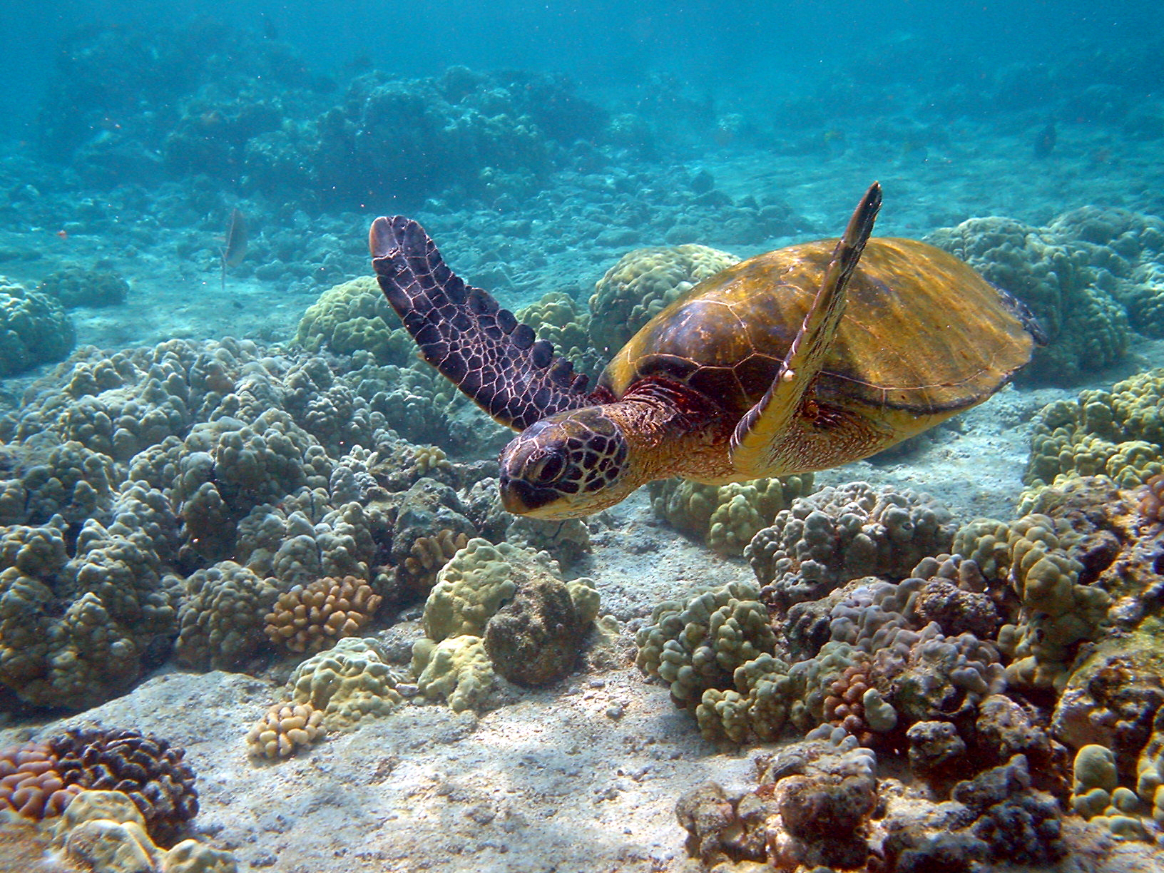 Green turtle (Chelonia mydas), Hawai'i, USA.